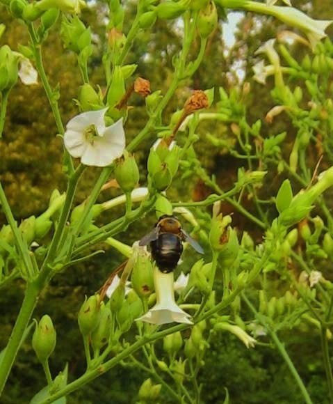 Nicotiana tabacum